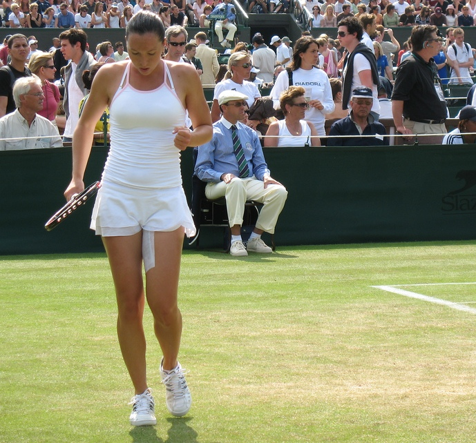 Cropped version of photo from by batsignal of Jelena Jankovic at the 2006 Wimbledon Championships.